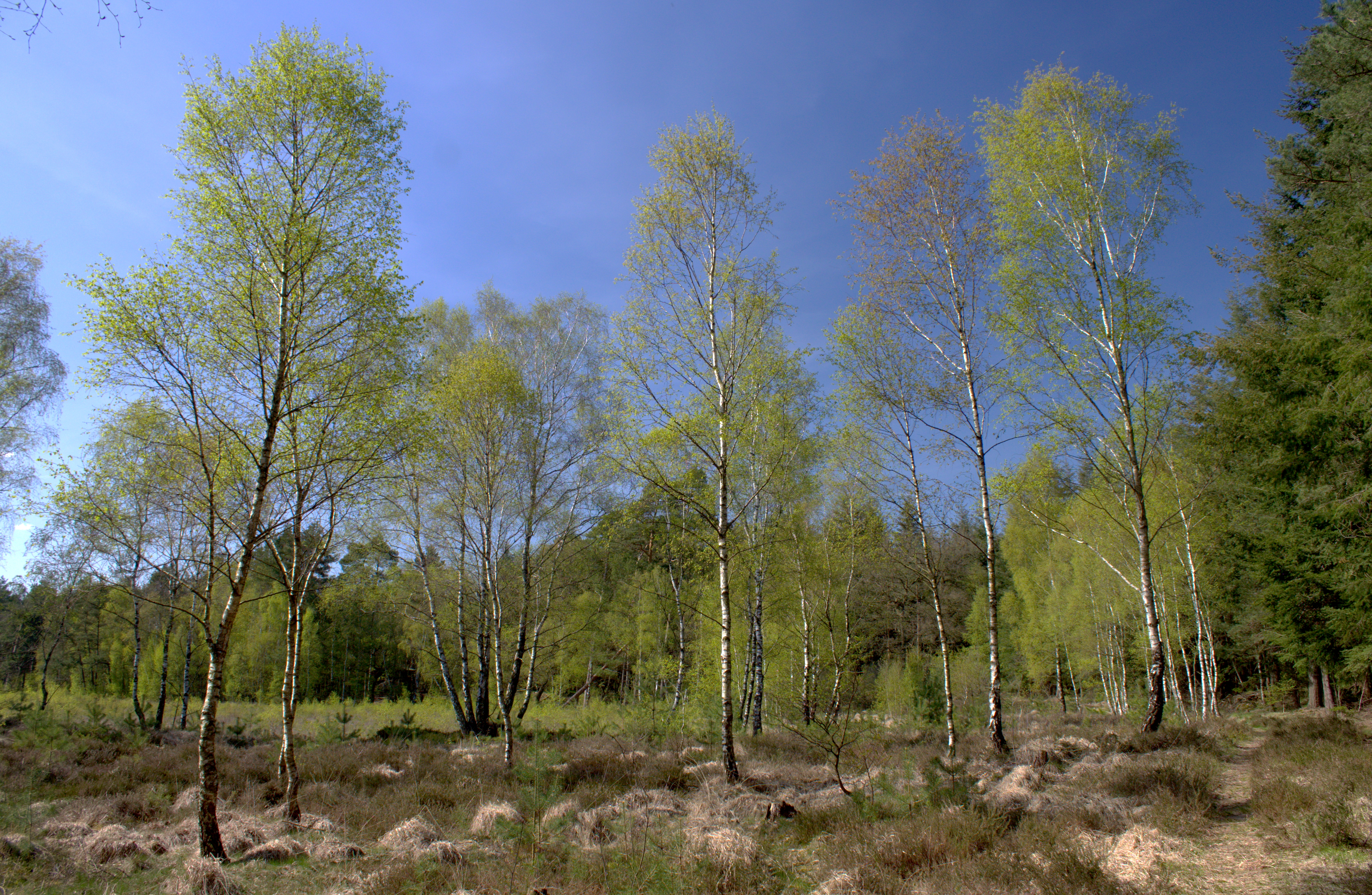 A schlatt (flat pond) north-west of the Gierenberg dune in Sandhatten, Hatten municipality, Germany, after becoming silted up, turned into a fen, and slowly being overgrown with birches.